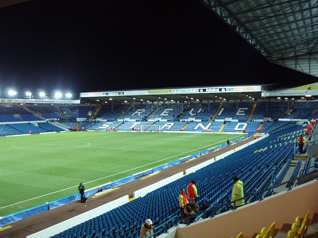 The Revie Stand at Elland Road, taken from the East Stand on Tuesday the 13th of November 2007.